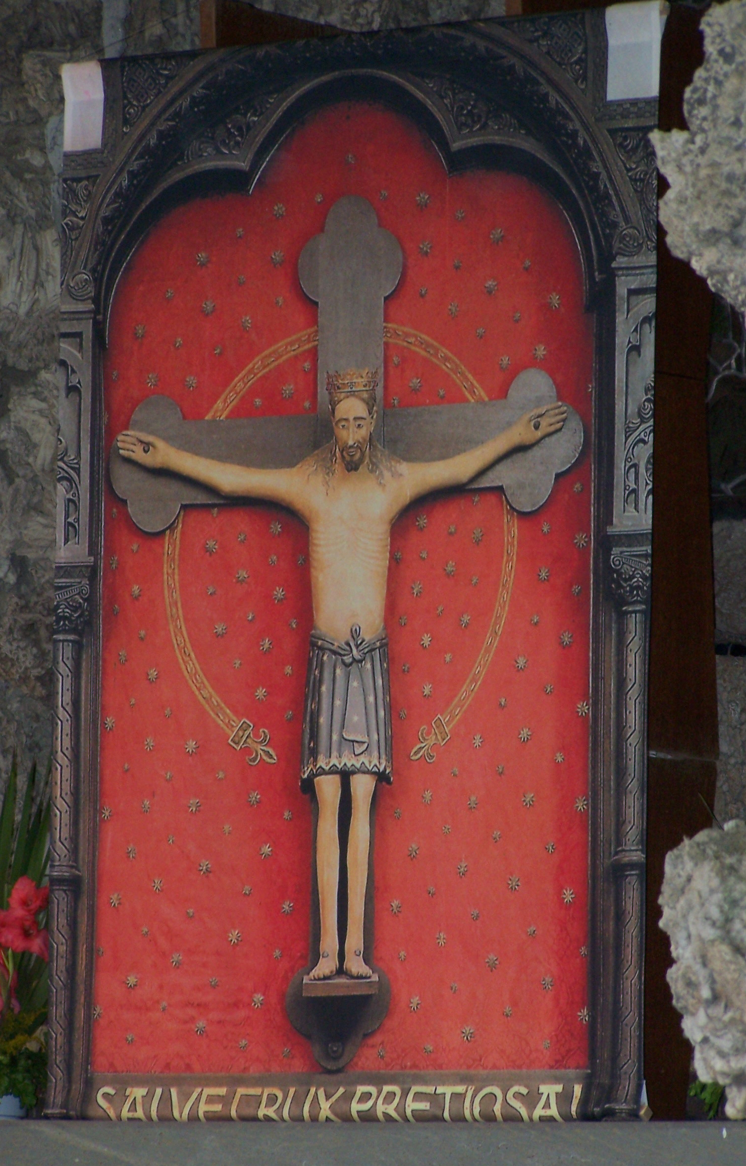 The crucifix of the Hülfensberg ("Hülfenskreuz"), Thuringia, Germany.